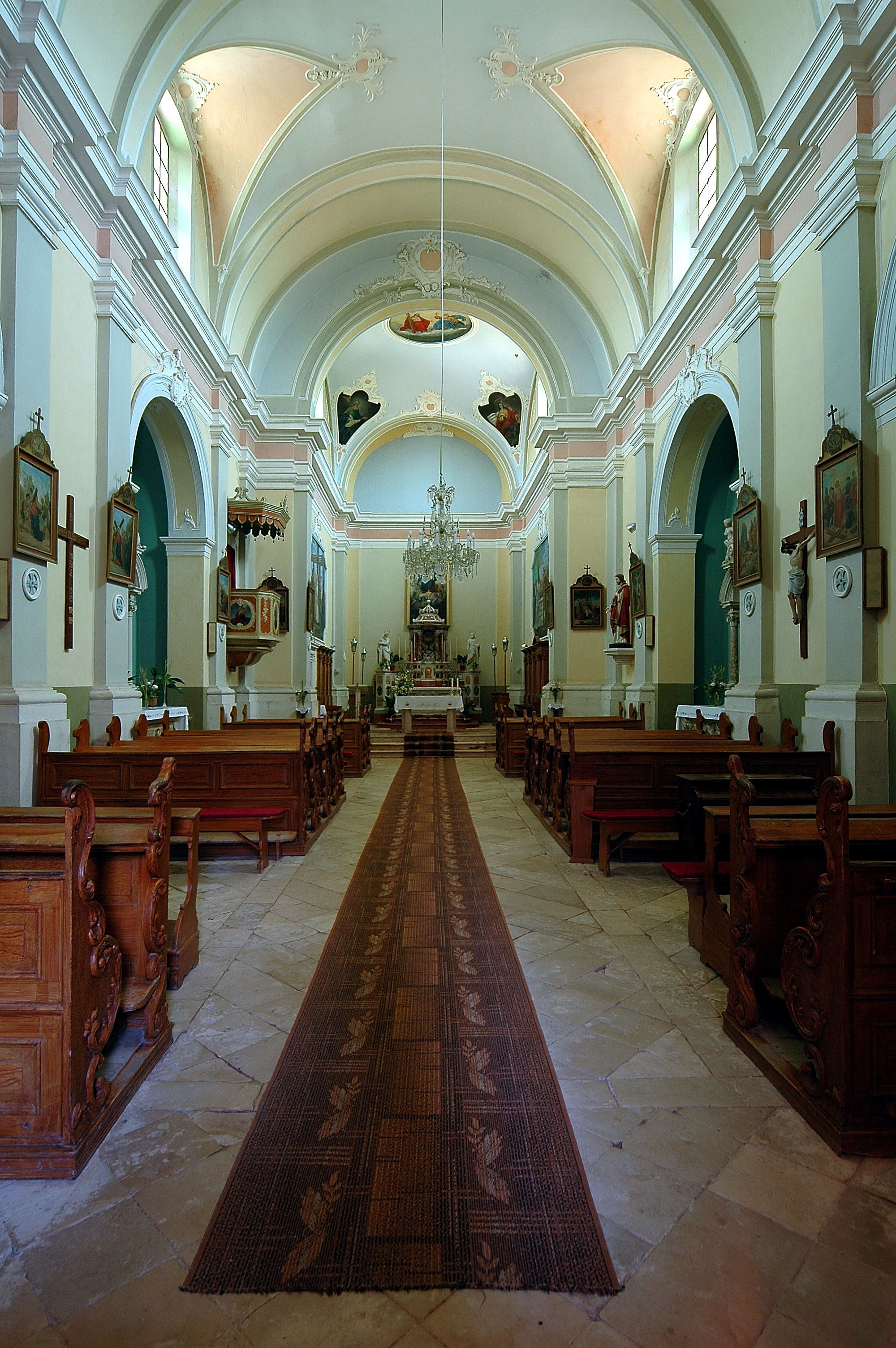 interior of church of Tinjan, Istria, Croatia